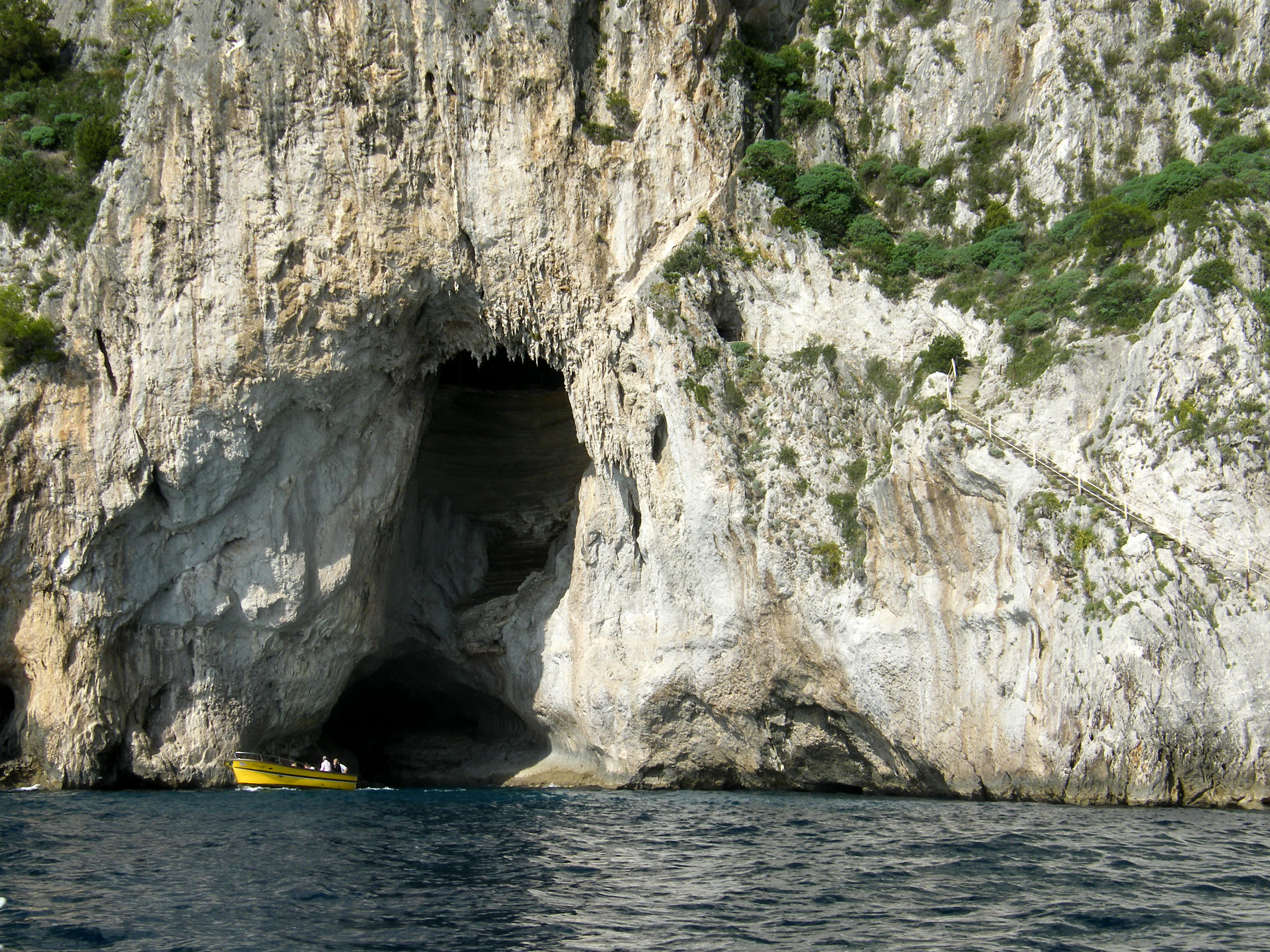 Capri cliffs